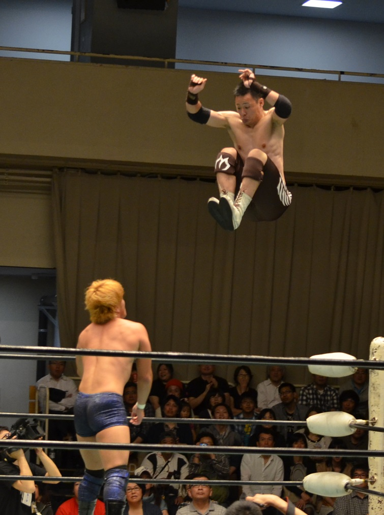 Gunji Ayumu doing a missile kick for Michinoku Pro Wrestling